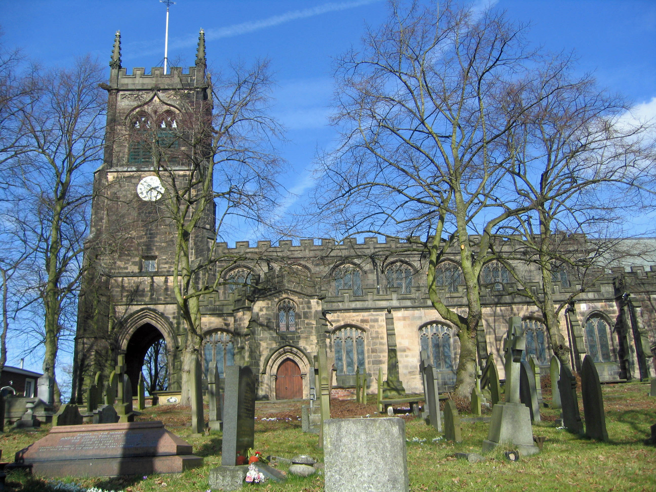 Photograph of St Mary's Church, Sandbach, Cheshire, England, from the south